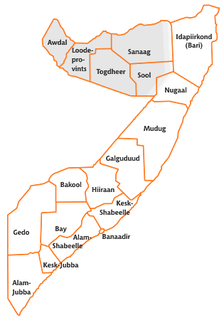 Locator map of Somaliland (fuzzy borders).